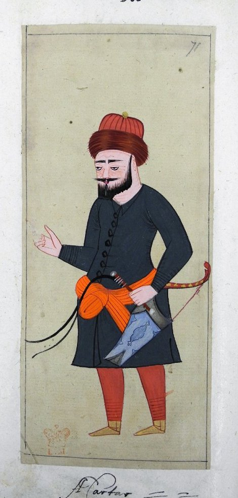 Military pictures from Hans Sloan's 'The Habits of the Grand Signor's Court', c.1620